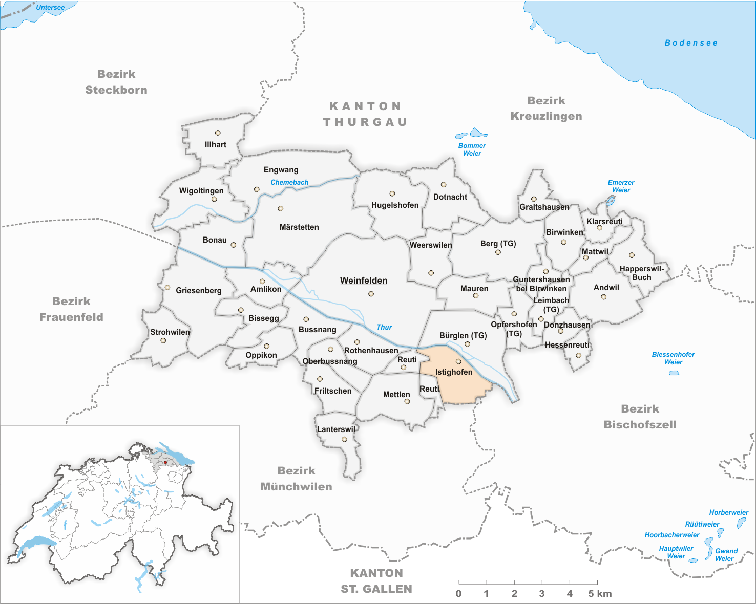 Municipality Istighofen